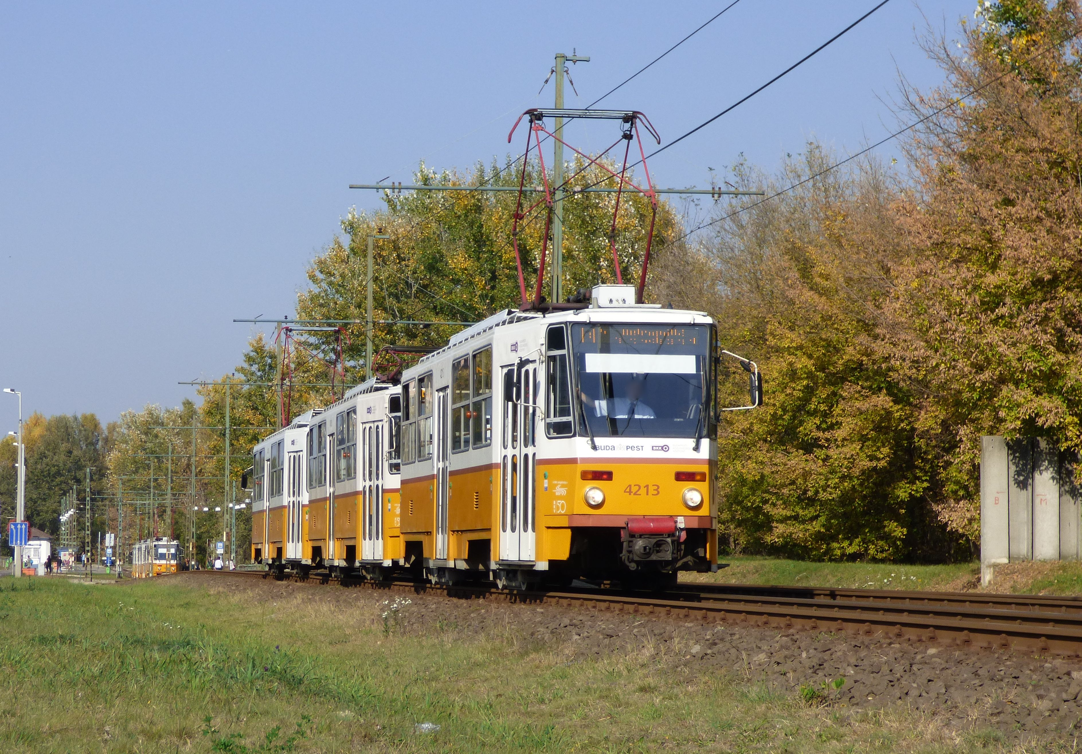 Metro replacement tram, Budapest-Káposztásmegyer (Tatra T5C5K, line 14M, cn. 4213)